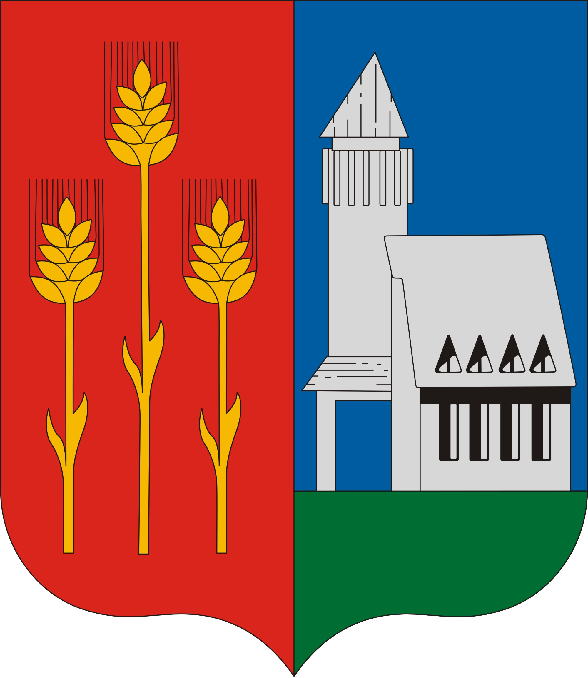 Coat of arms of Kilimán, Hungary